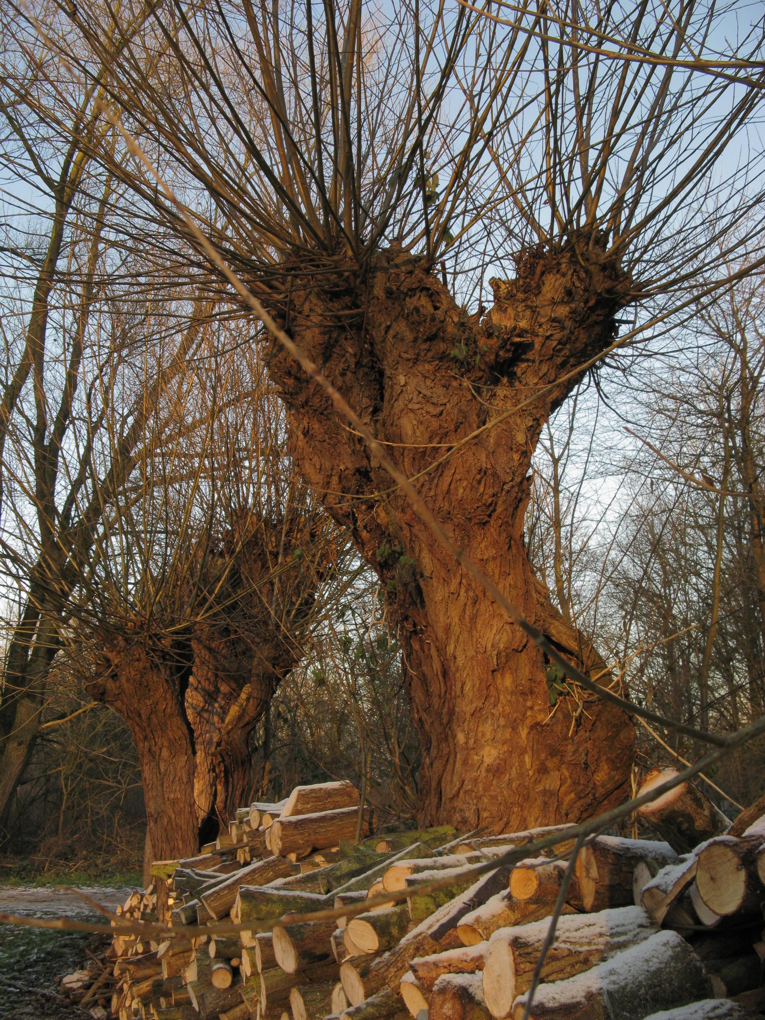 Knotted willow tree by woodpile at Bourgoyen natural reserve in Ghent, Belgium.